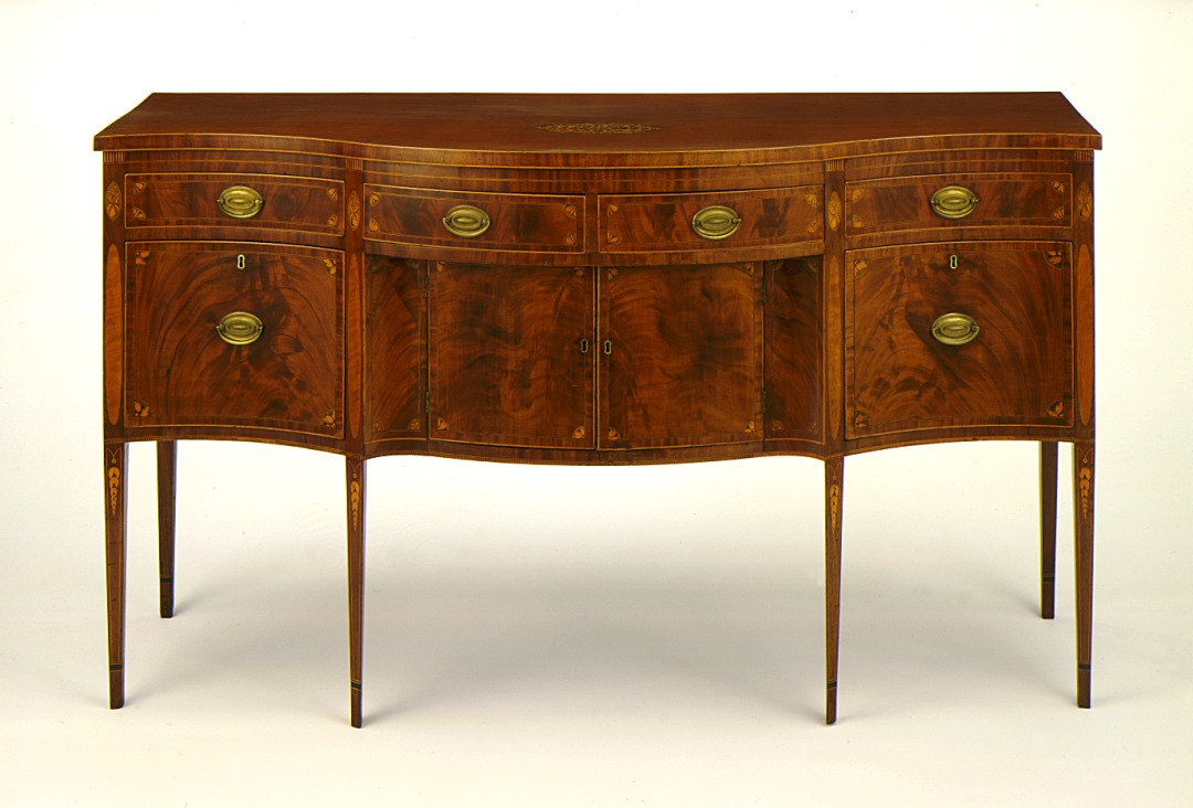 United States, New York, 1785-1800 Furnishings; Furniture Mahogany, pine, tulip poplar, various inlays 41 x 73 x 26 in. (104.14 x 185.42 x 66.04 cm) Gift of Mrs. Murray Braunfeld (M.90.211) Decorative Arts and Design